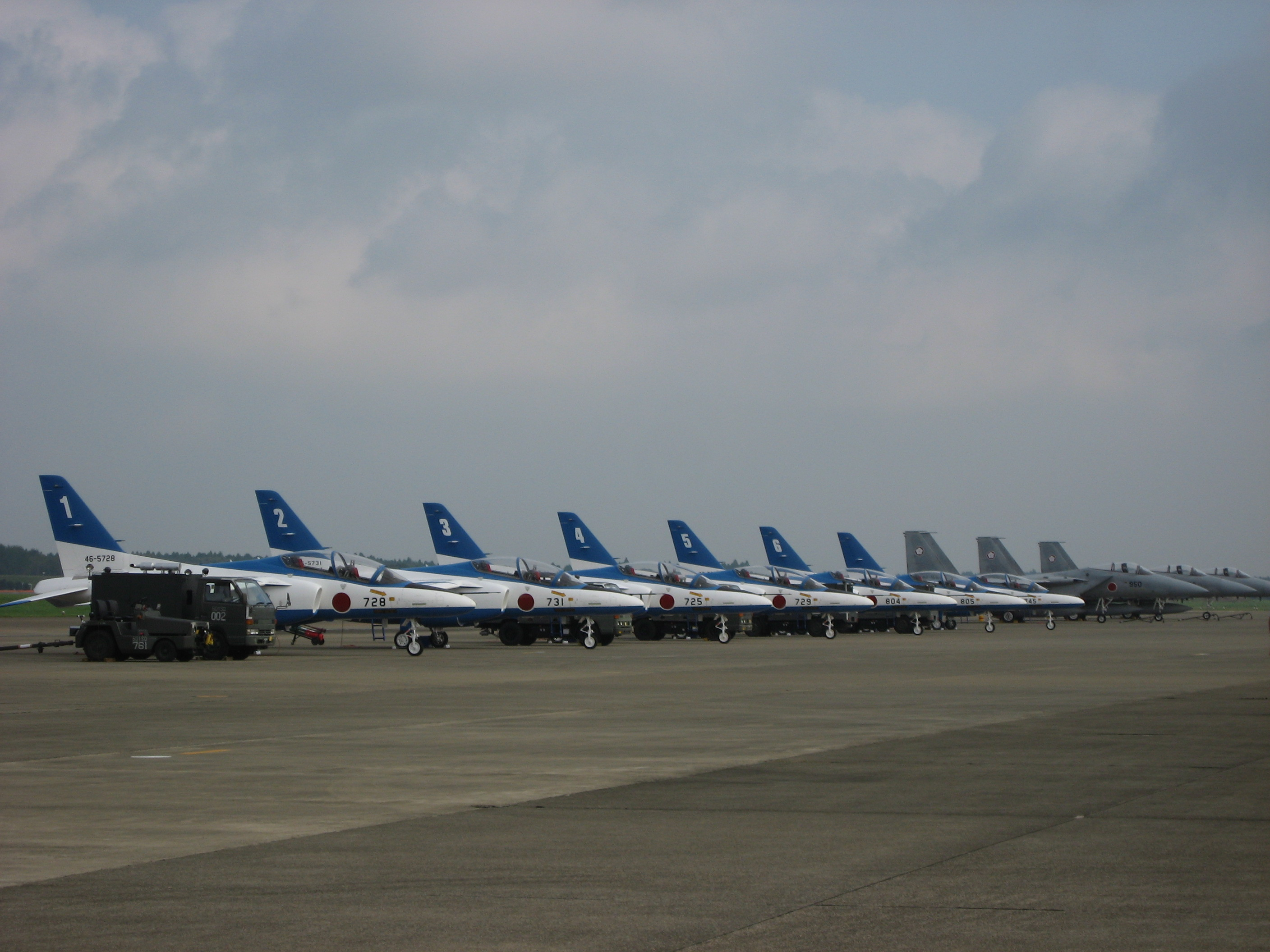 Japan Self-Defence Force, T-4 (Blue Impulse) at the Hyakuri Air Base Airshow 2007.